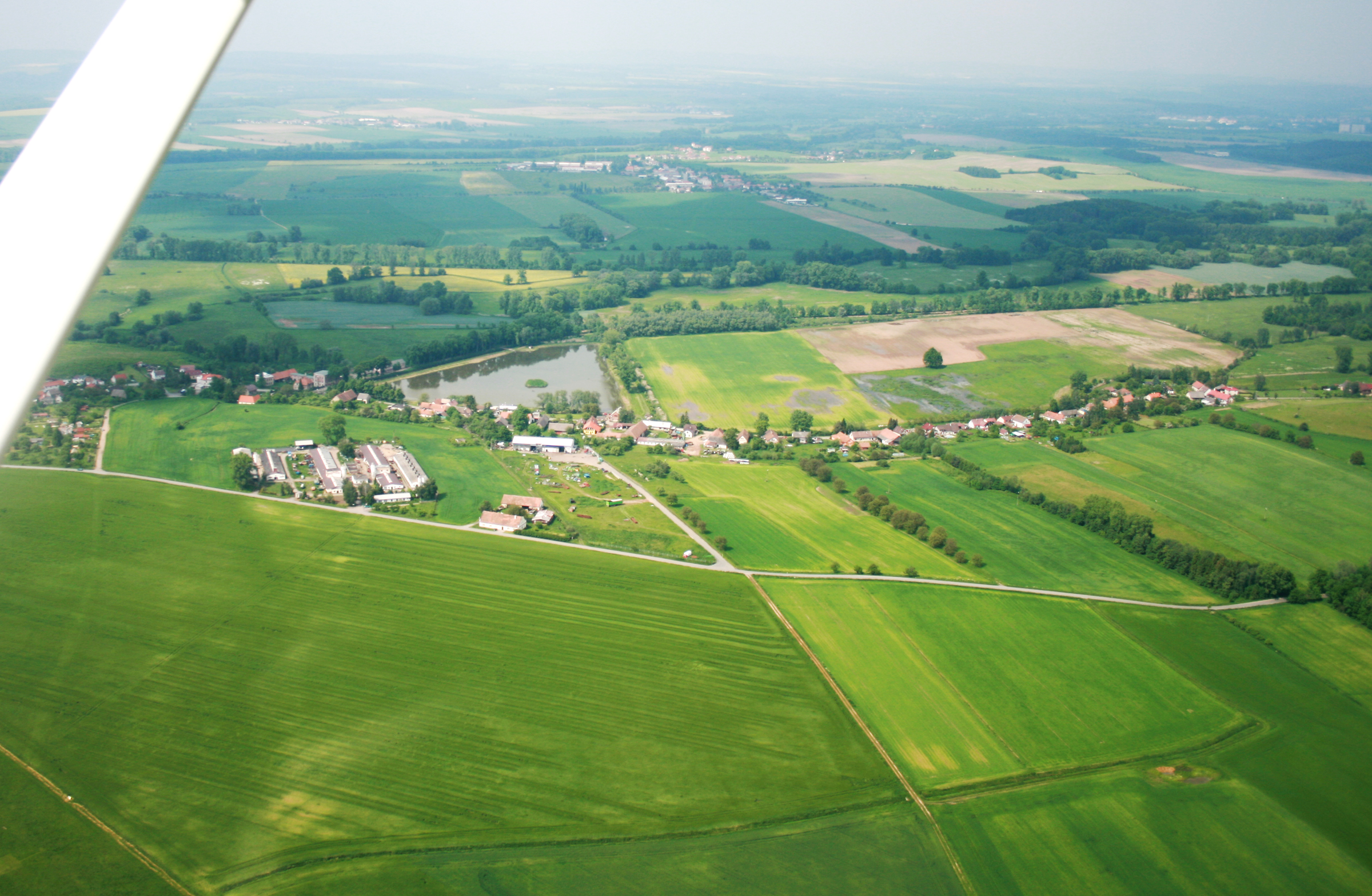 Small village Starý Ples, part of Jaroměř from air, Josefov Meadows Bird Reserve to the left, east Bohemia, Czech Republic